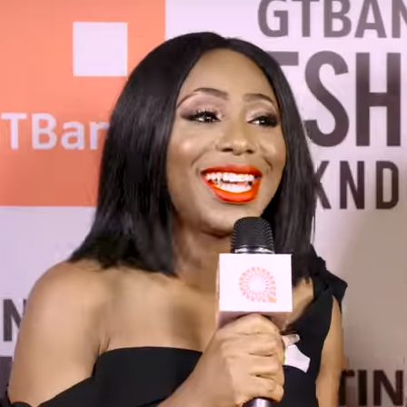 Fashion Weekend 22 Nov 2017 #GTBankFashionWeekend - this is the pre party with TY Bello, Bisola Aiyeola etc